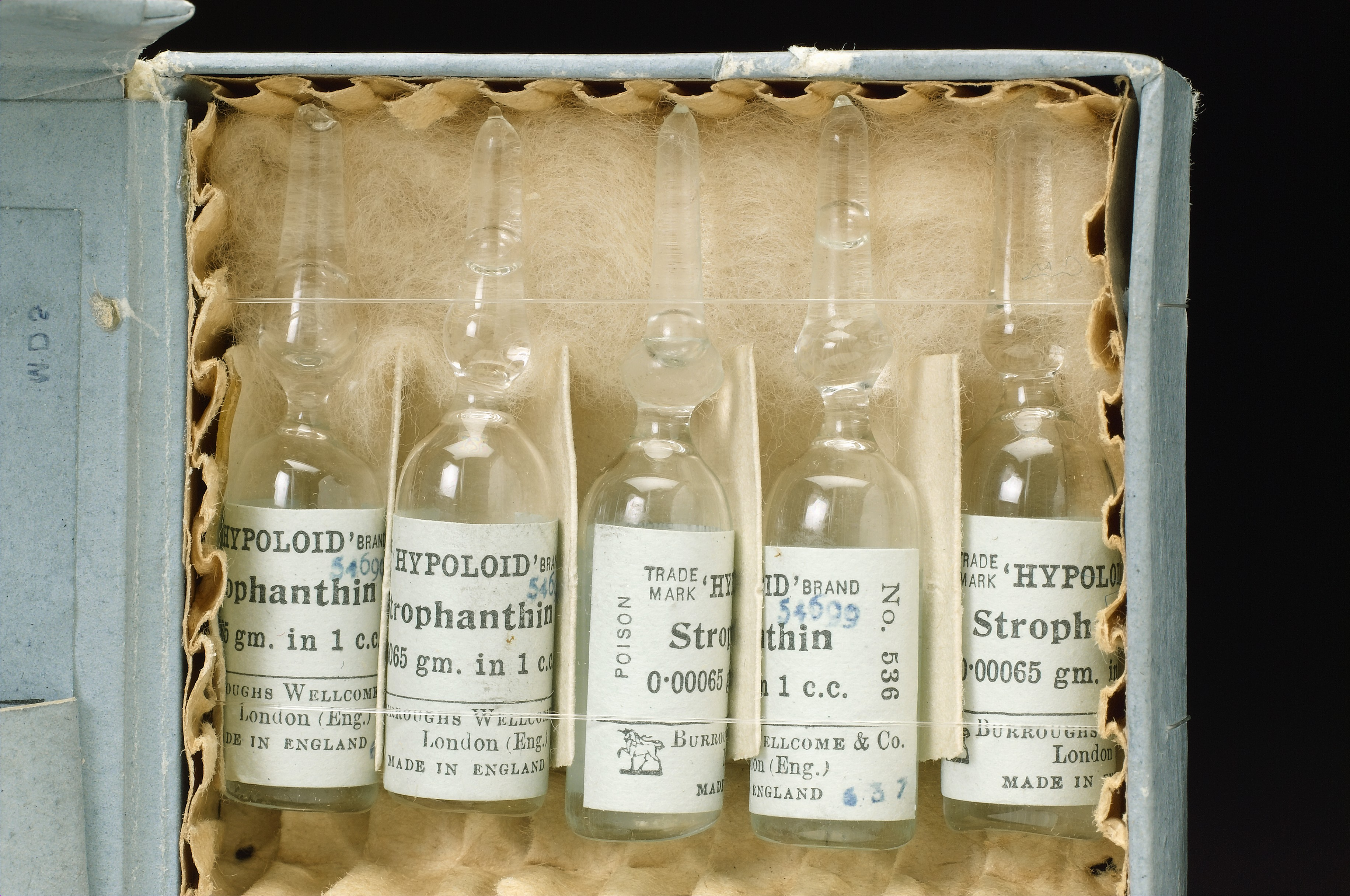 European medicines containing Strophanthus extract; 10 ampoules in box of strophanthin solution, by Burroughs Wellcome and Co., England, dated 1917. Close up detail of box contents. Black background. Wellcome Images